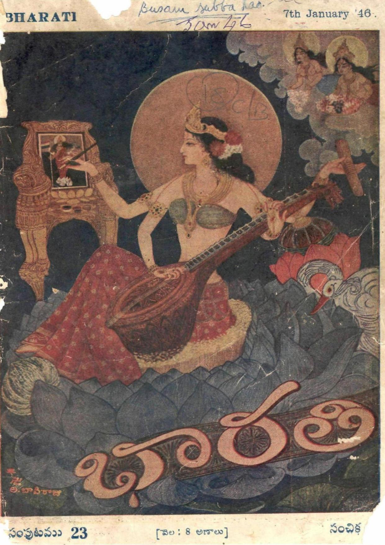 This is the cover page of Bharathi Magazine published in 1946. This is the painting by renowned artist Adivi Baapiraju